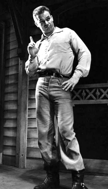 Ralph Meeker in Picnic (1955)